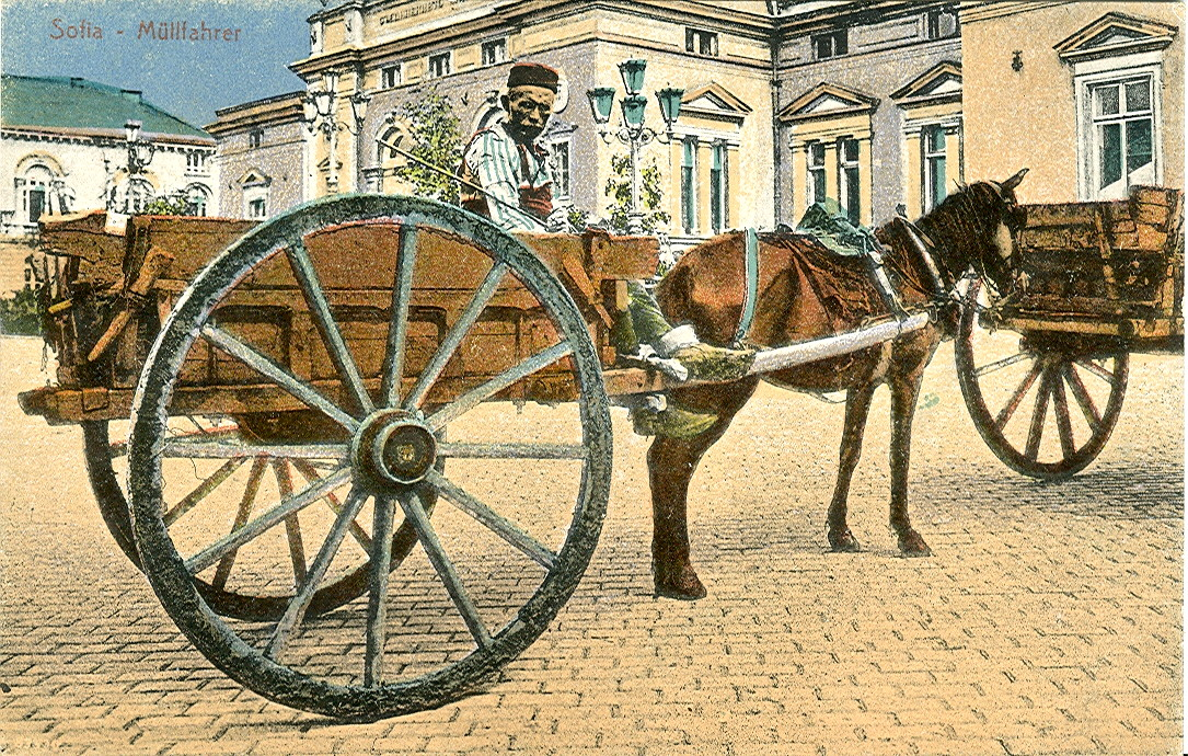 Postcard, undated ( ca.1916 ). Title: "Sofia - waste collector"